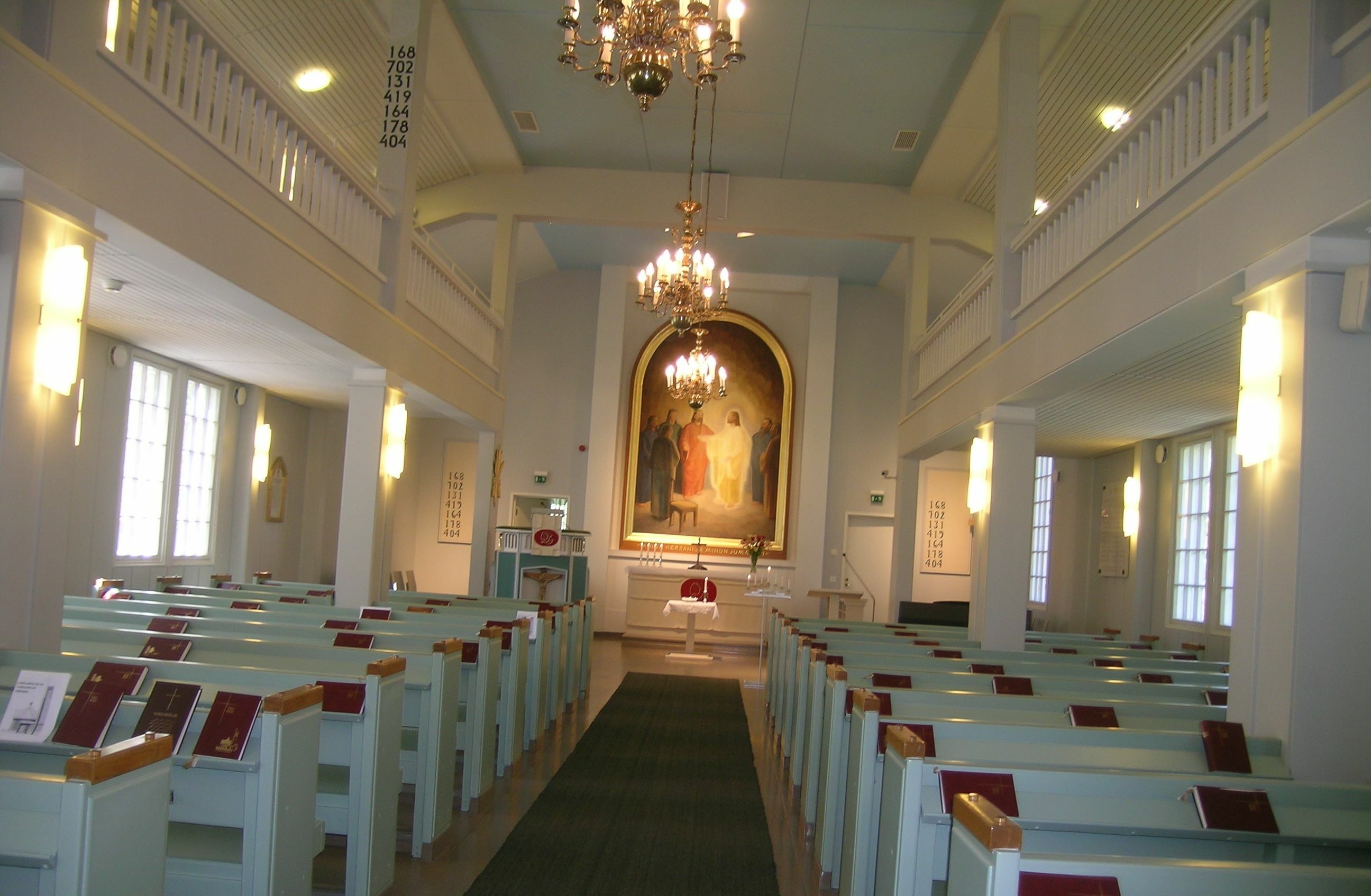 Interior of Punkaharju Church in Finland